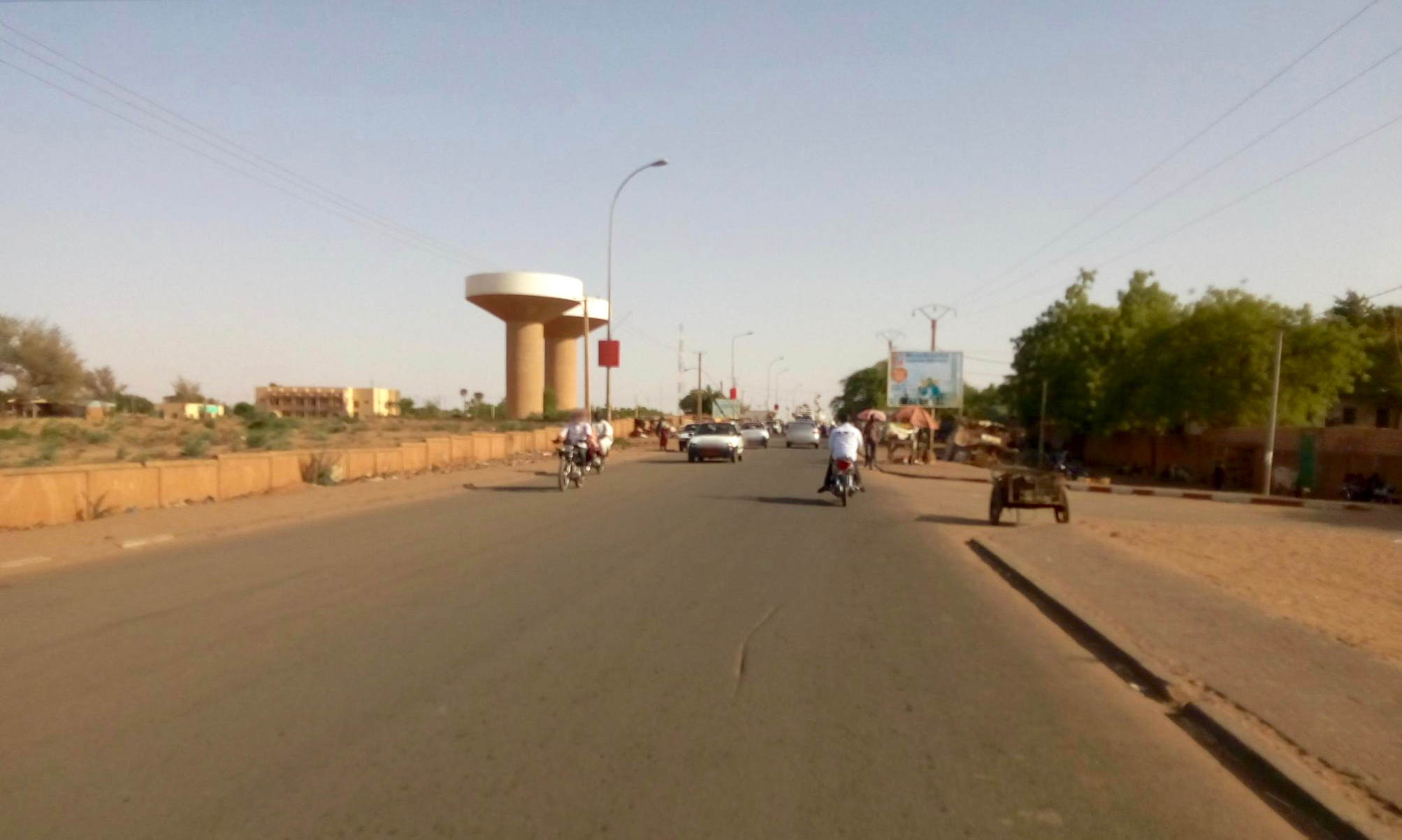 Boulevard de l’Université, Karadjé, Niamey.